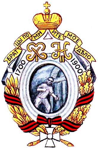 Badge of Tenginsky 77-th Regiment